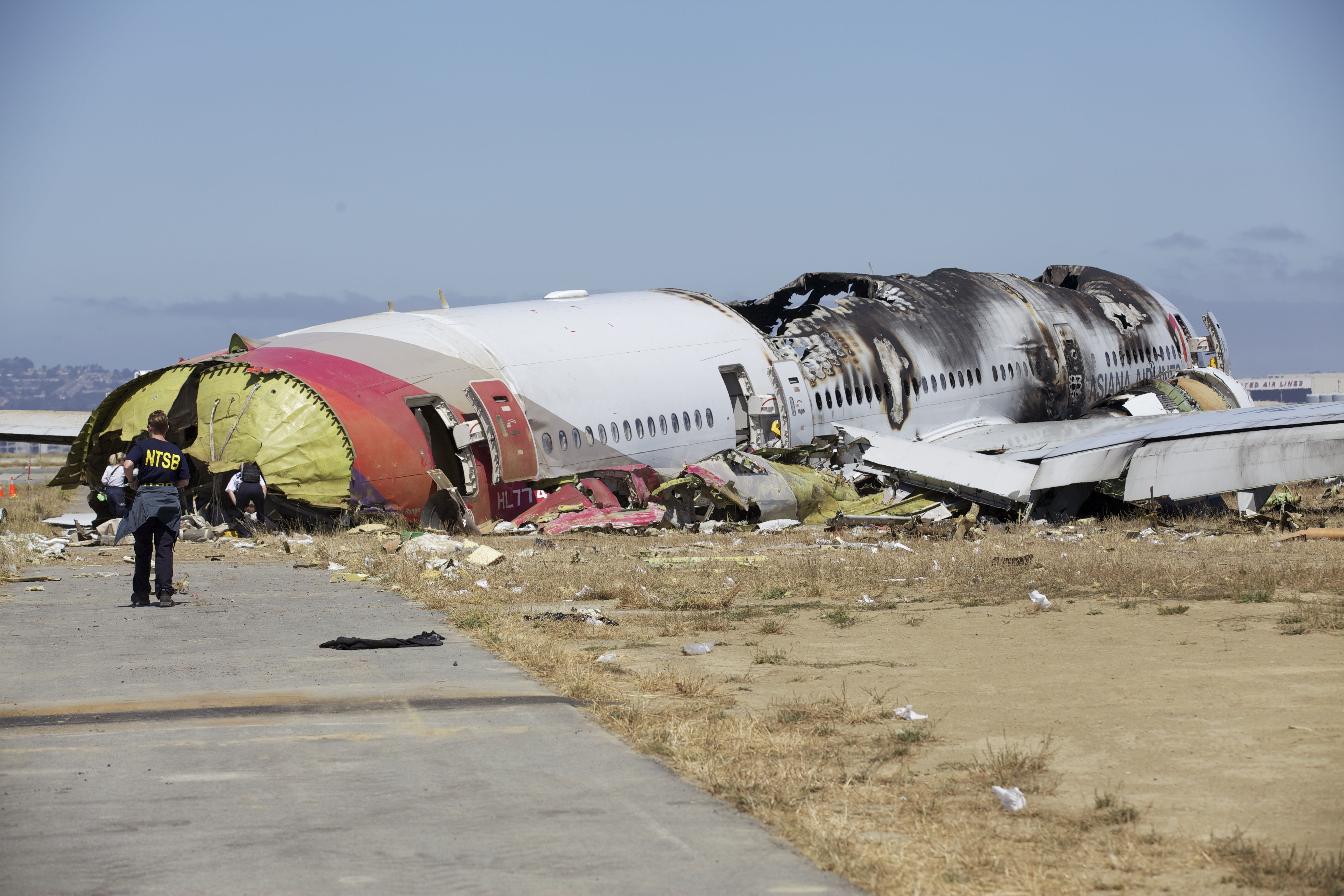 NTSB investigators looking at the fuselage of Asiana Airlines Flight 214 after it crash landed in San Francisco.